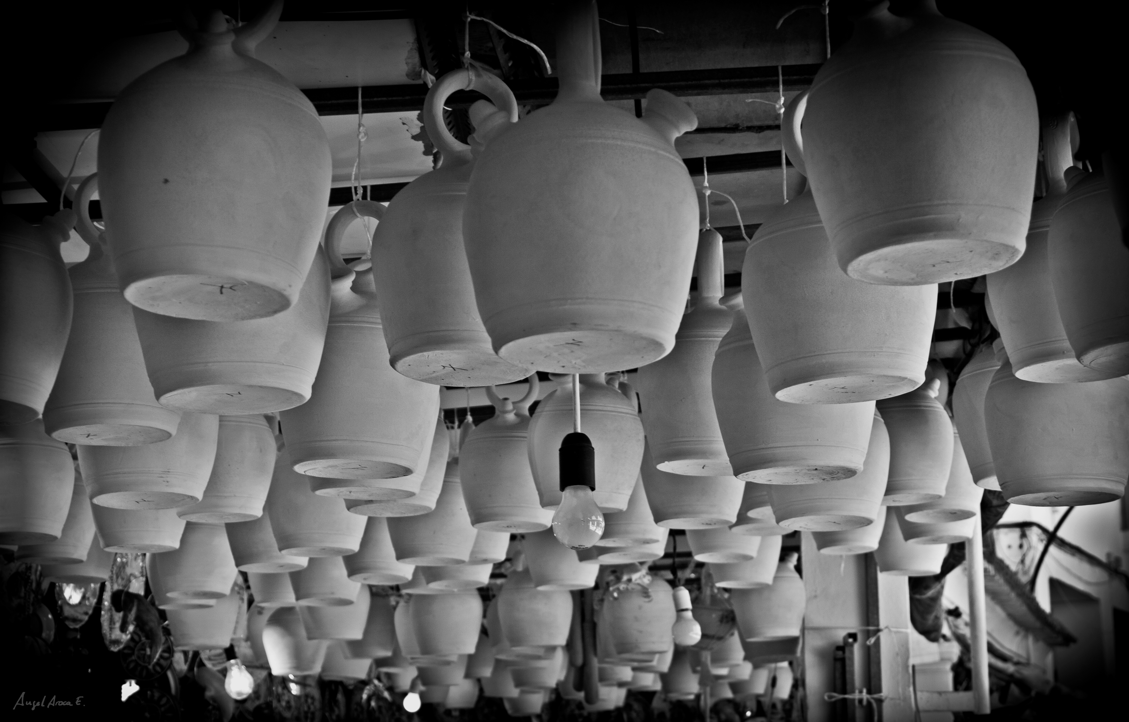 Botijos, is a famous instrument to spain, fresh water all day